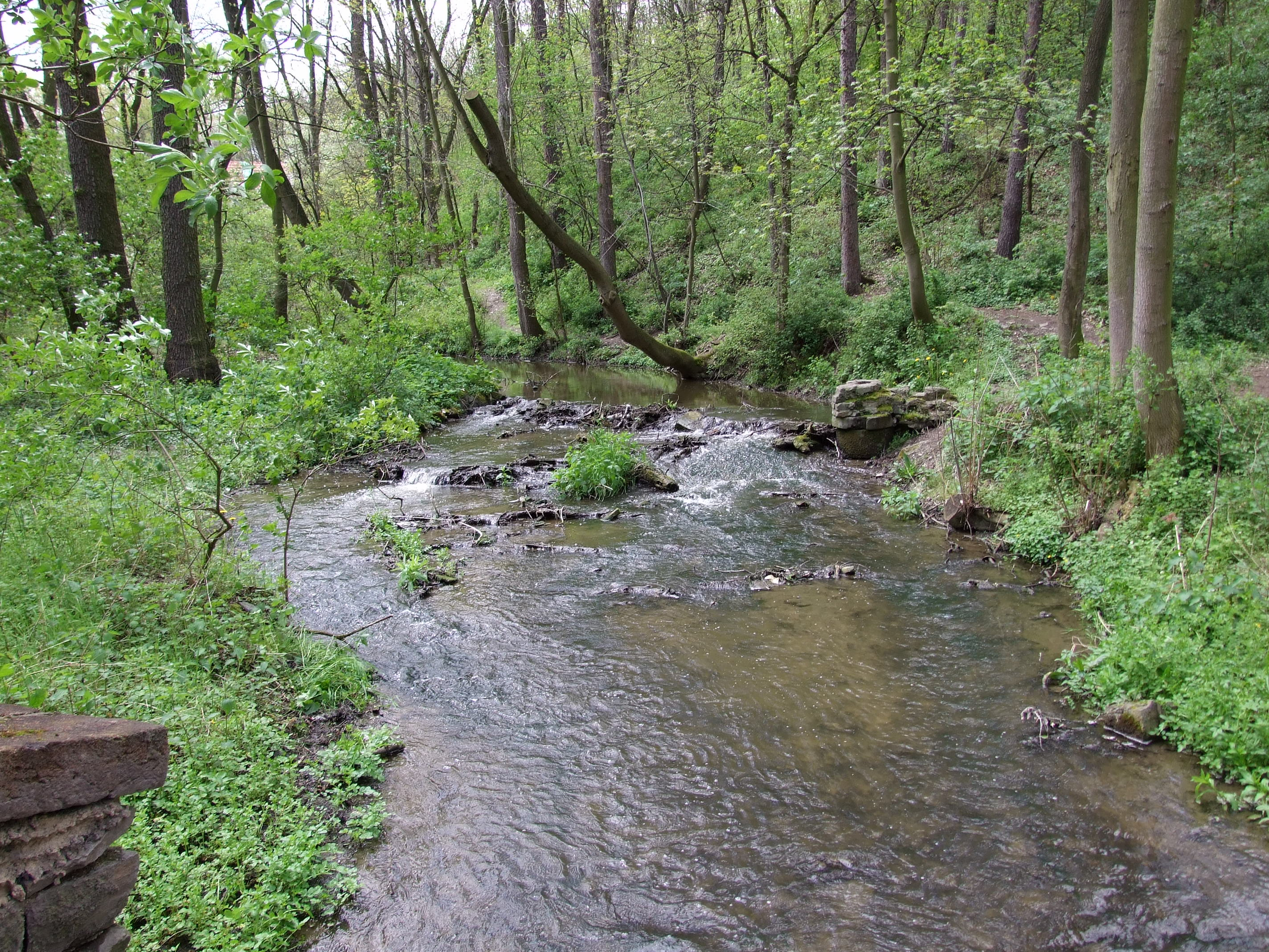 Zákolanský creek near Okoř, Central Bohemian region, CZ